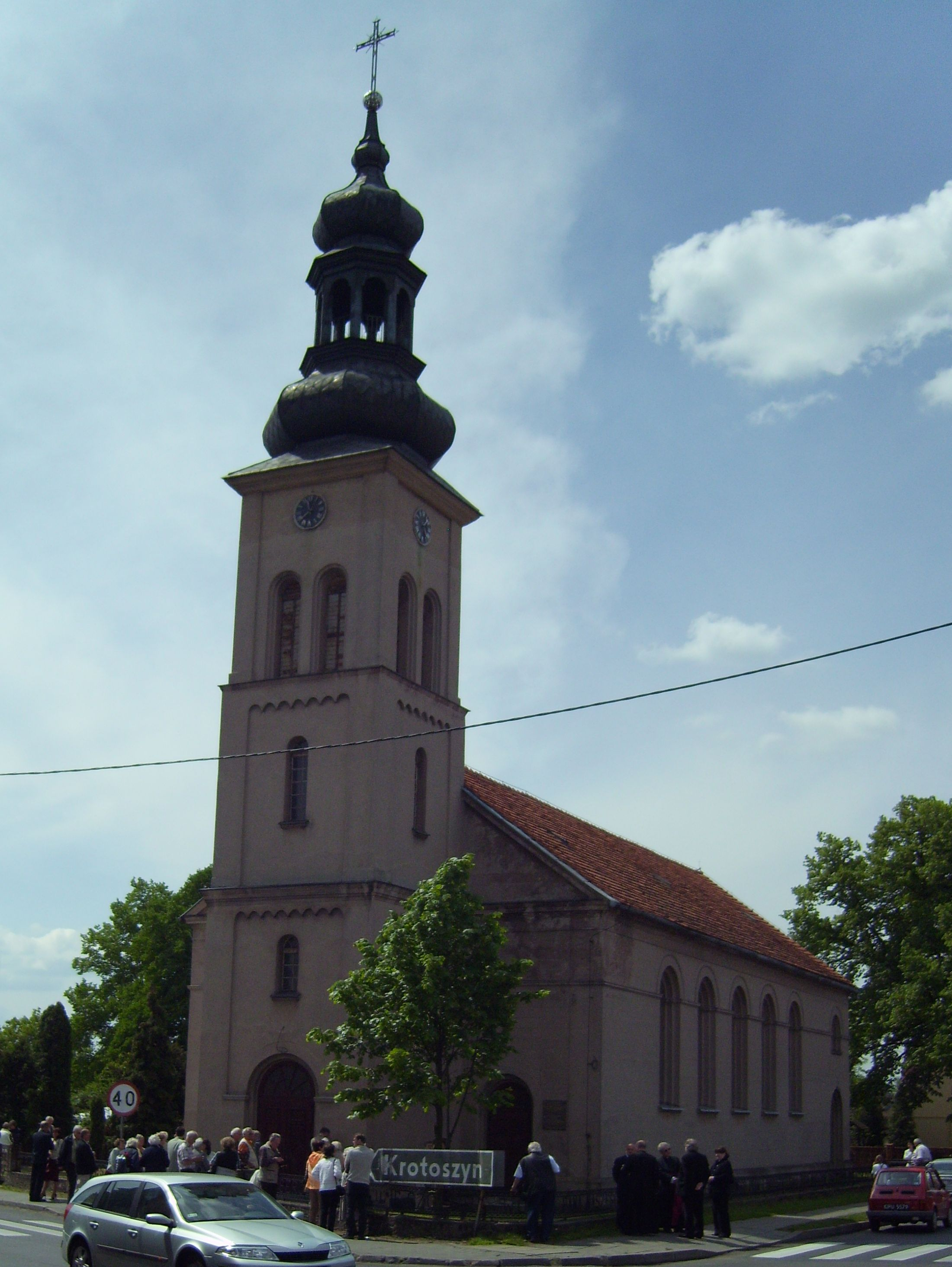 protestant church in Dobrzyca